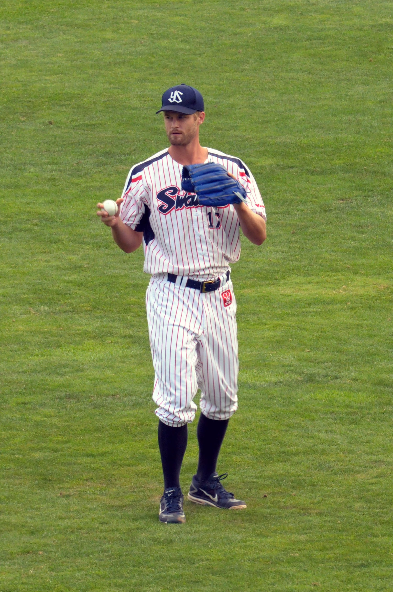 Chris Leroux, pitcher of the Tokyo Yakult Swallows, at Akita Prefectural Baseball Stadium.